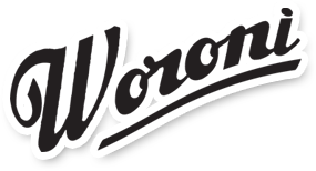 2011 logo of "Woroni", the student newspaper of the Australian National University